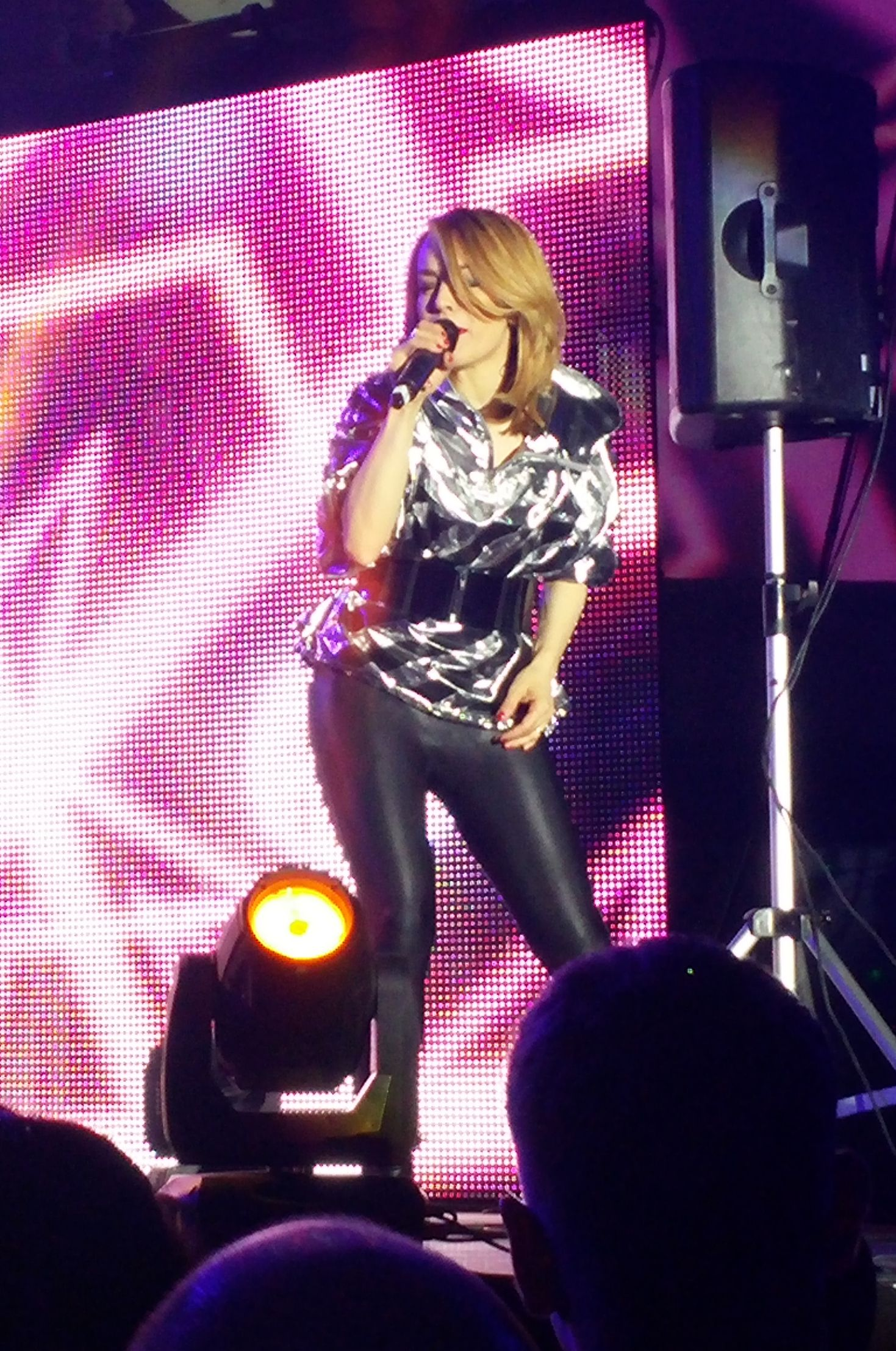 Alexia - Italian pop singer, during the show I love the 90s, Winter Palace, Sofia, 9-9-2015